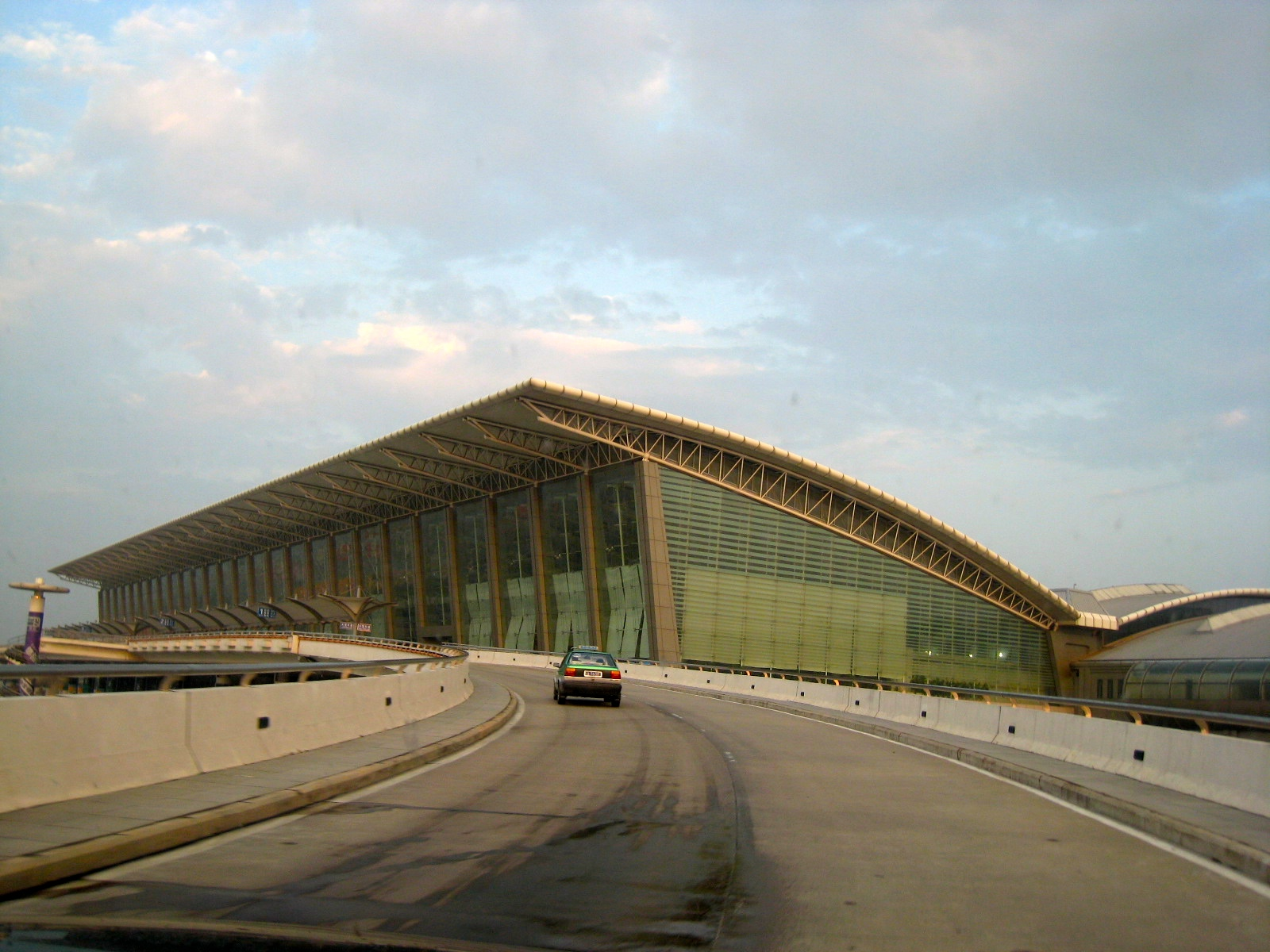 Xi'An XianYang International Airport Departure Hall [July 2007]